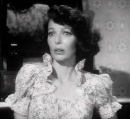 Cropped screenshot of Loretta Young from the trailer for the film Cause for Alarm!